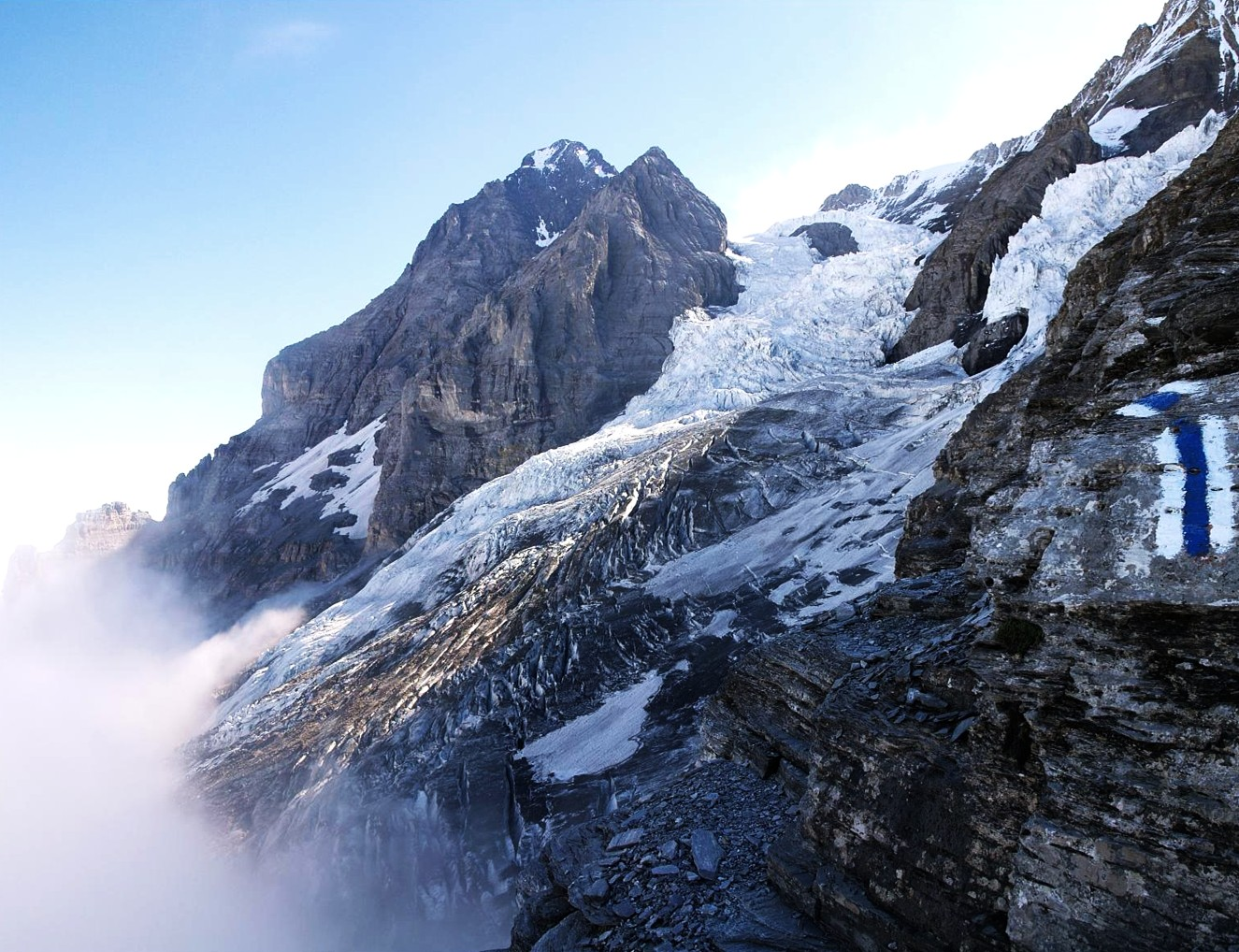 Eigergletscher, Grindelwald